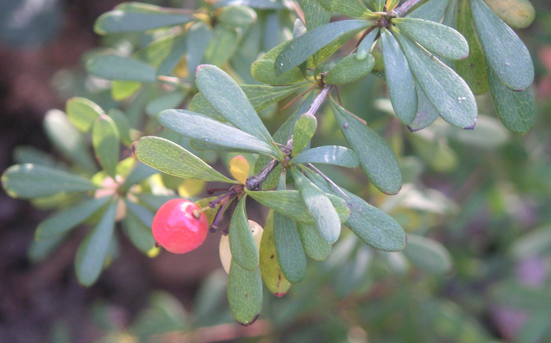 Branch of Berberis wilsoniae at Botanical Garden Krefeld, Germany.